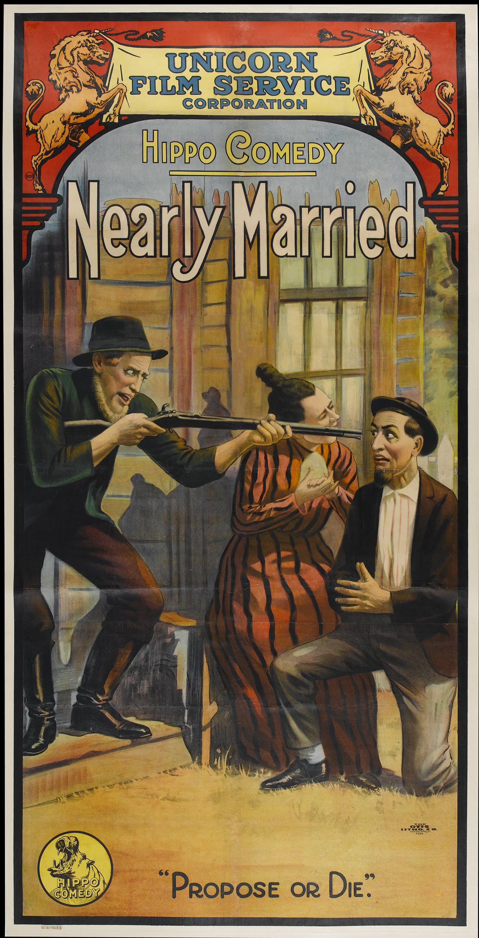 Film poster.